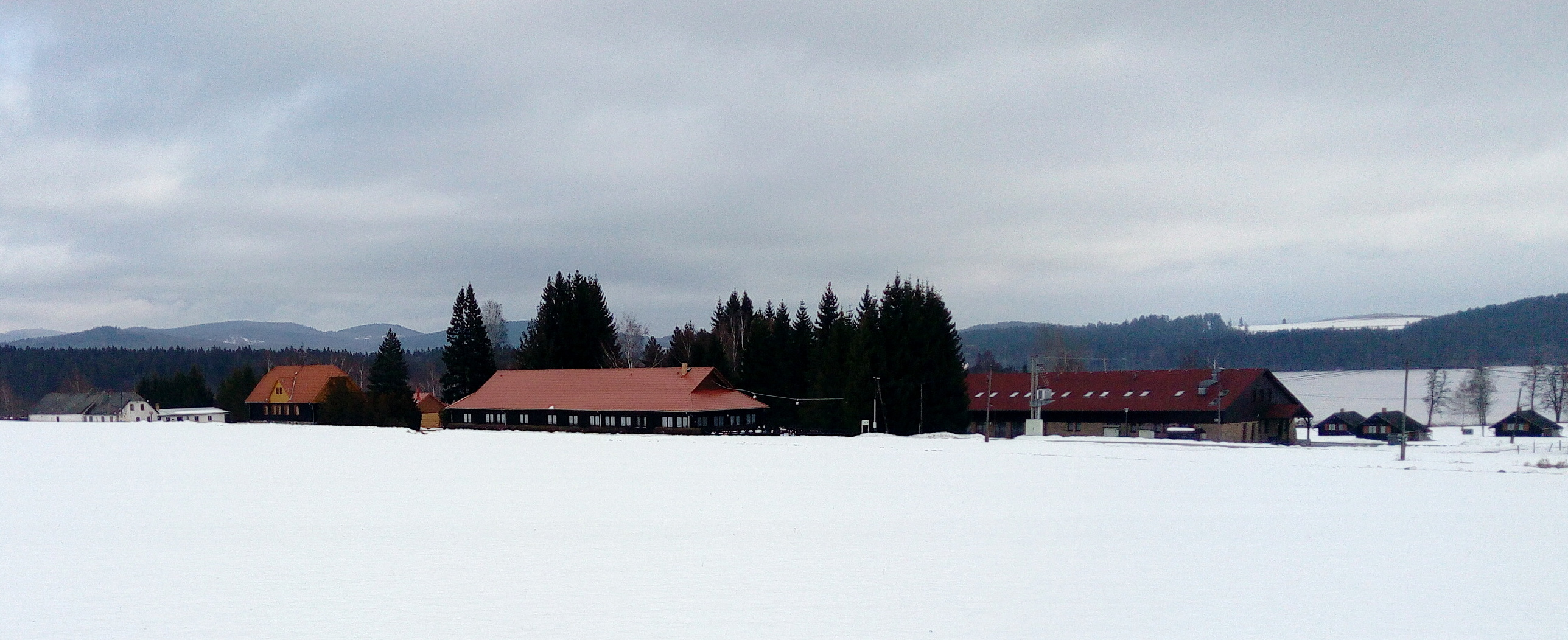 Tourist resort in the village of Olšina, part of Polná na Šumavě, Český Krumlov District, South Bohemian Region, Czechia.